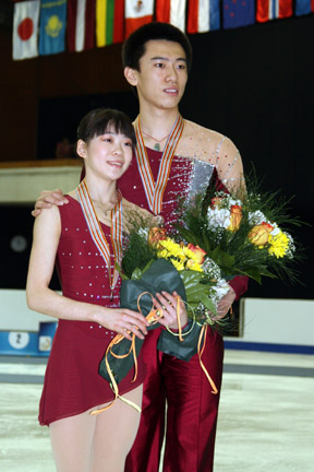 Dong Huibo & Wu Yiming during the pairs medals ceremony at the 2008 World Junior Championships.